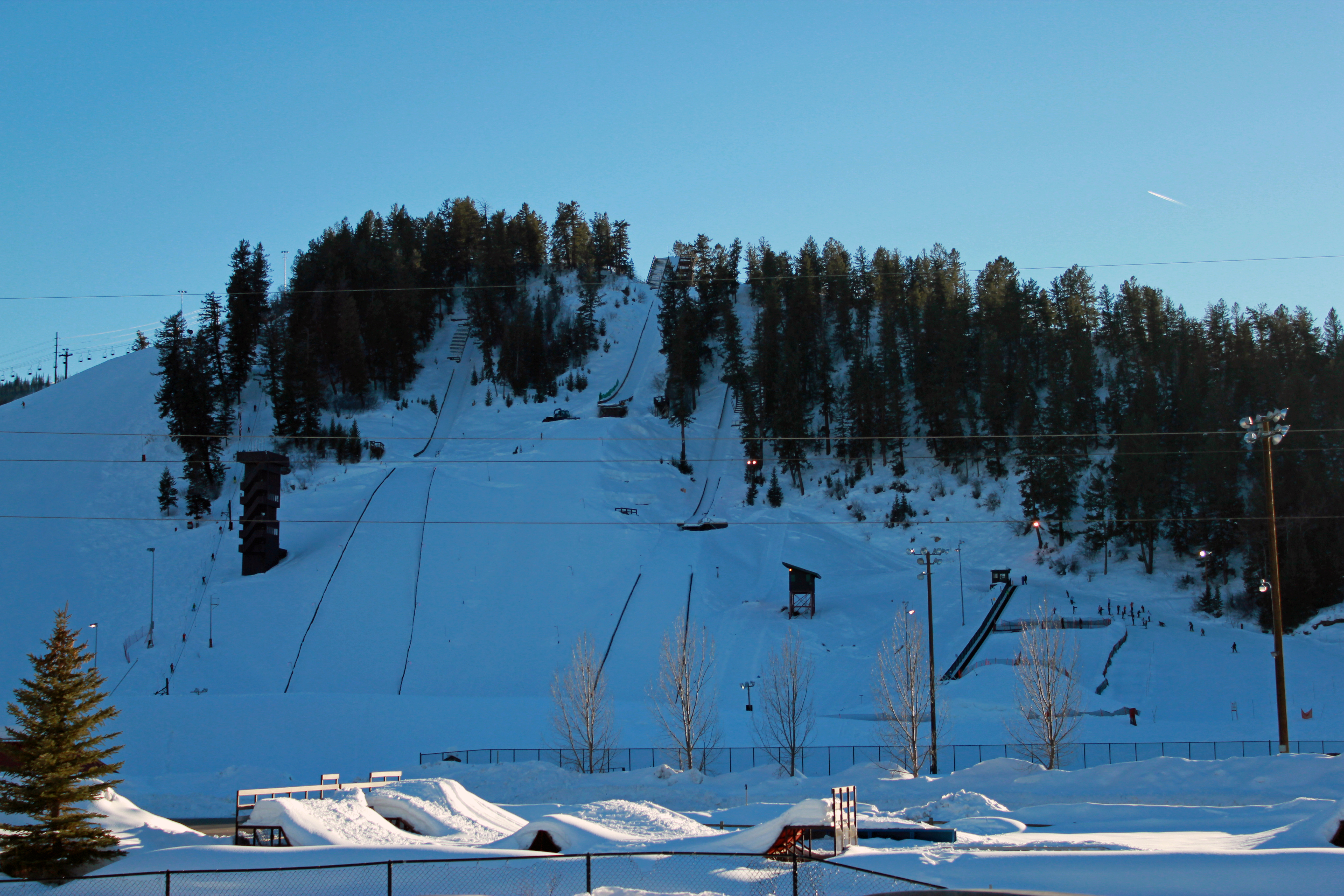 Howelsen Hill Ski Area in Steamboat Springs, Colorado.